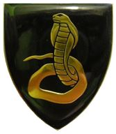 SADF era Cape Flats Commando emblem